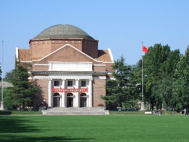 The Grand Auditorium at Tsinghua University in Beijing, China. It was built in 1917.